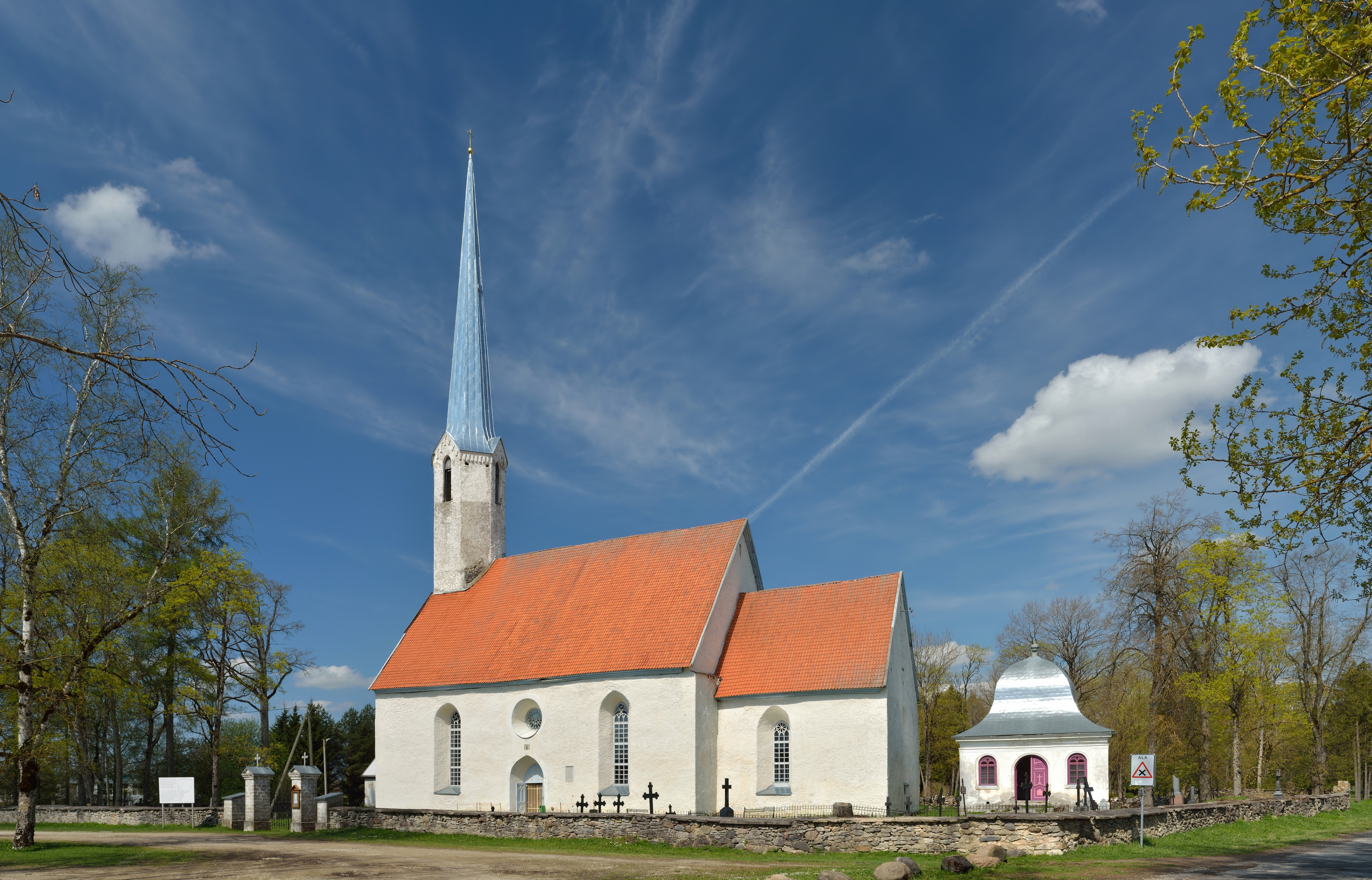 Väike-Maarja church, built as fortified church probably in 1470's. Walls thickness is up to 3,3 meters.